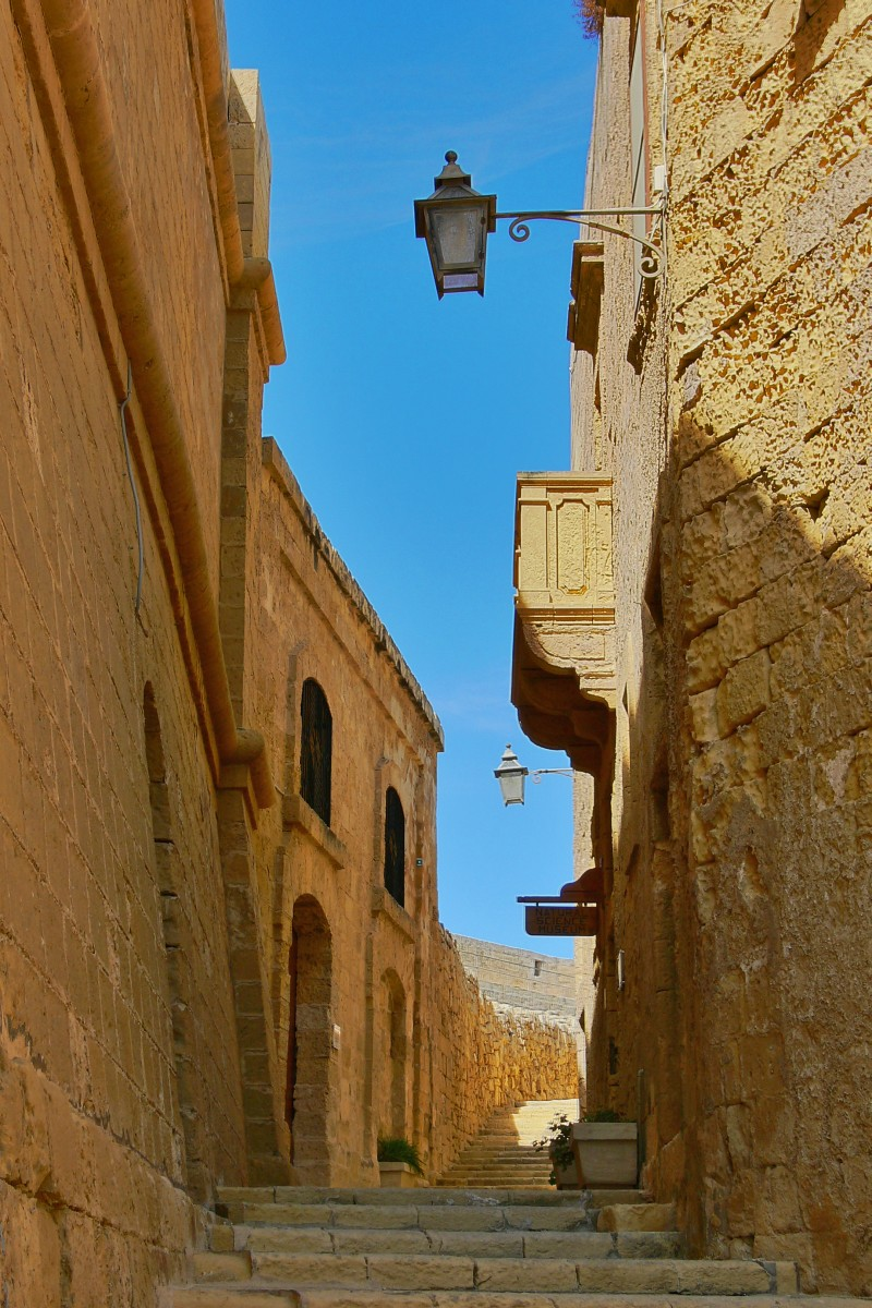 Street in the Gozo Citadel